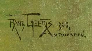 Signature of the Belgian painter Frans Geerts (1869-1957)